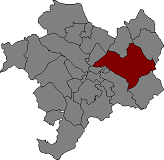 Location of Subirats in Alt Penedès